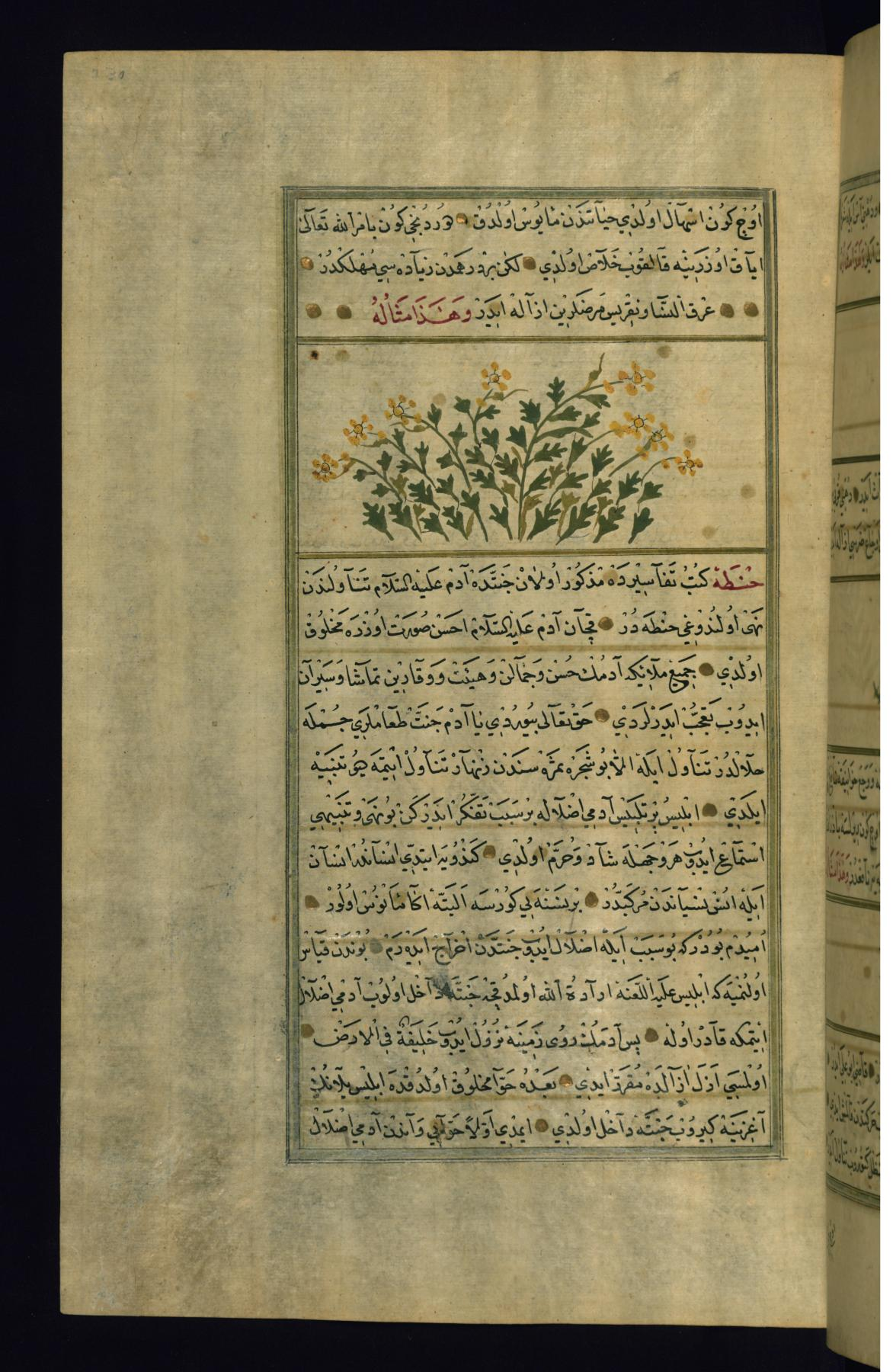 This illustration from Walters manuscript W.659 depicts a colocynth plant (hanzal).